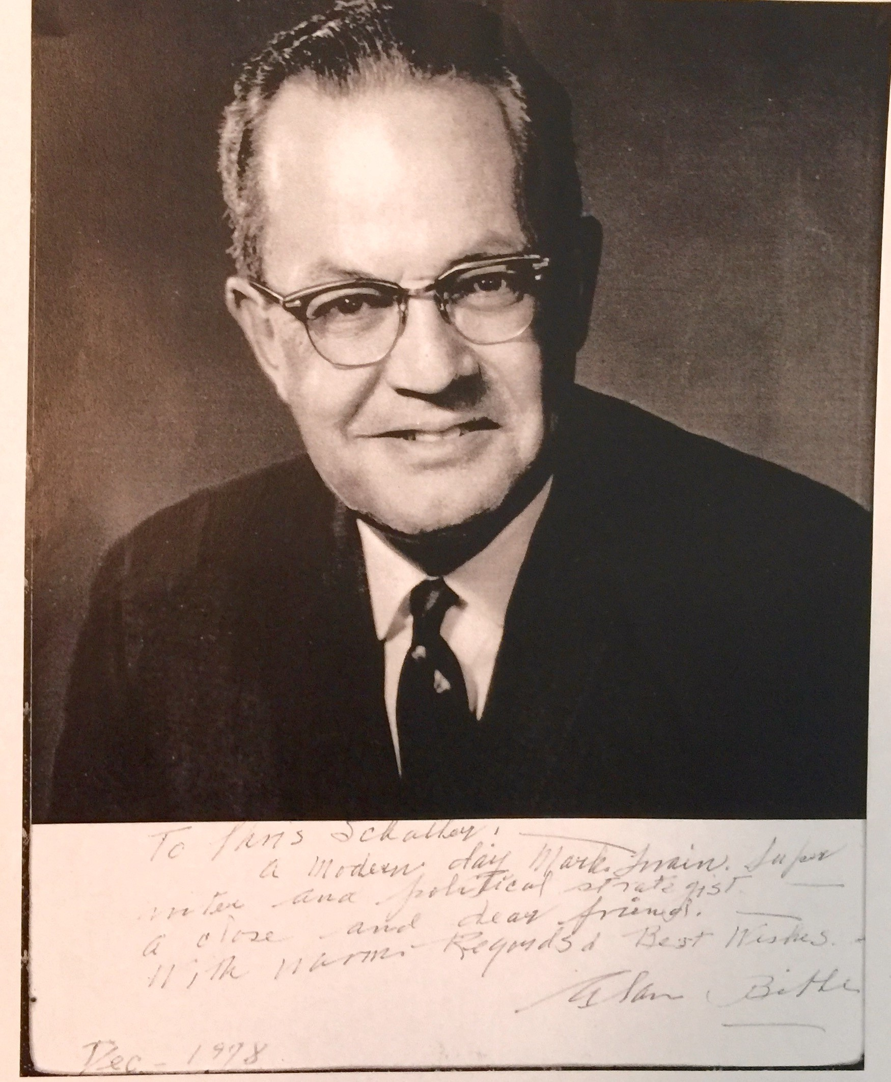 Alan bible autograph to chris schaller calling him modern day mark twain